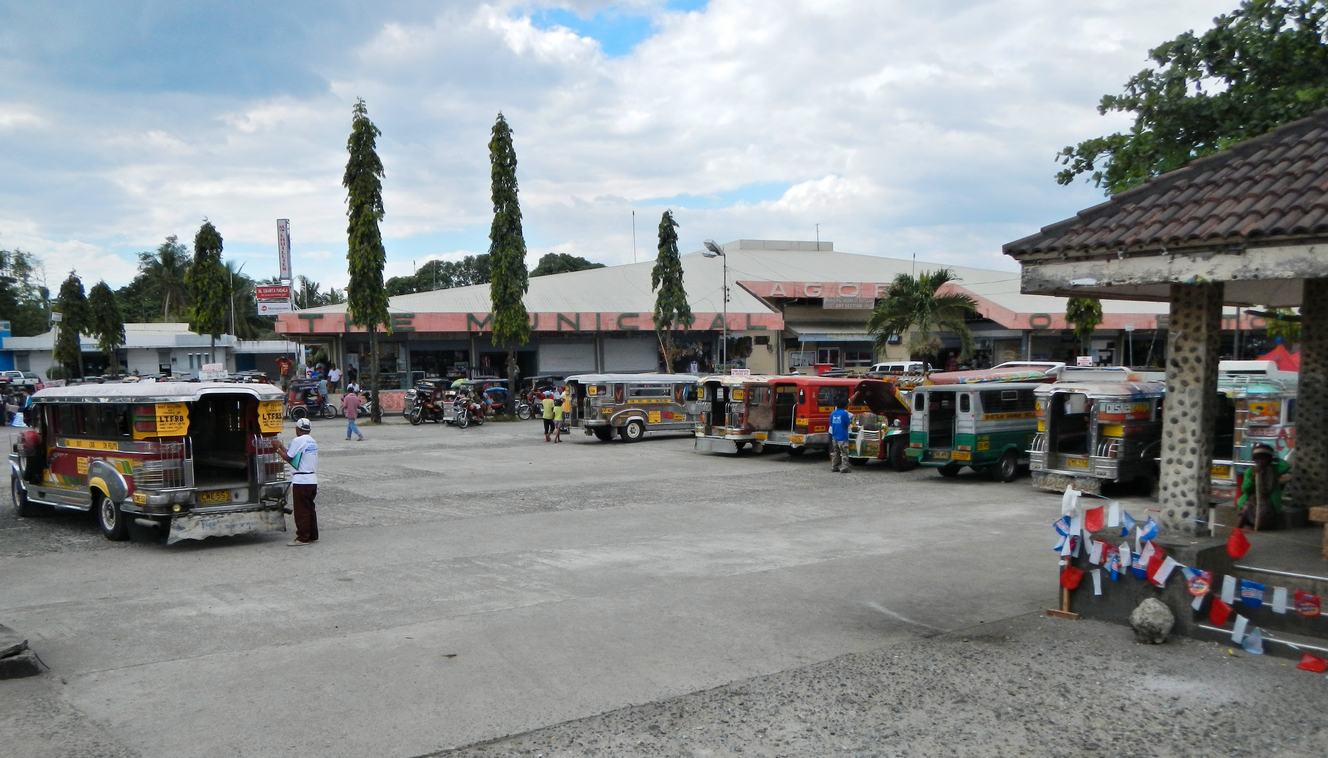 Upload Wizard photos -- (General description, 3-dimension angle by angle photography of this town, church & landmarks) -- Pan-Philippine Highway or Daang Maharlika or National Highway passing along the town of a) Cabangan, Zambales [1] Town Proper, its Public Market, the United Methodist Church, scenery view of the rice fields, Zambales Mountains the ranges, then passing along b) Iba, Zambales[2] Town Proper, its River, Tesda Zambales, Halls of Justice housing the Courts of Justice, then passing along c) Masinloc, Zambales[3] Mall, and Park, Plaza, in Town Proper, then passing the d) Welcome Arch of - San Marcelino, Zambales[4] Church - going to the e) the Saint William's School and part of the - beside it - Saint William the Hermit Parish Church of San Marcelino - (belongs to the - Roman Catholic Diocese of Iba[5] San Sebastian Vicariate[6] F-1875 San Marcelino, 2207 Zambales Southern Vicariate - Vicar Forane: Rev. Fr. Audencio Mozo, Jr.Population: 25,605; Catholics: 17,897 Titular: St. William, June 25 Parish Priest: Rev. Fr. Virgilio Monje) [7] [8] - William of Maleval[9]) - San Marcelino, Zambales[10] (a first class municipality in the province of Zambales, [11] Philippines, home to Mapanuepe Lake [12] that formed after the 1991 eruption of Mount Pinatubo [13] San Marcelino Airfield[14] politically subdivided into 18 barangays, home of Singkamas Festival).